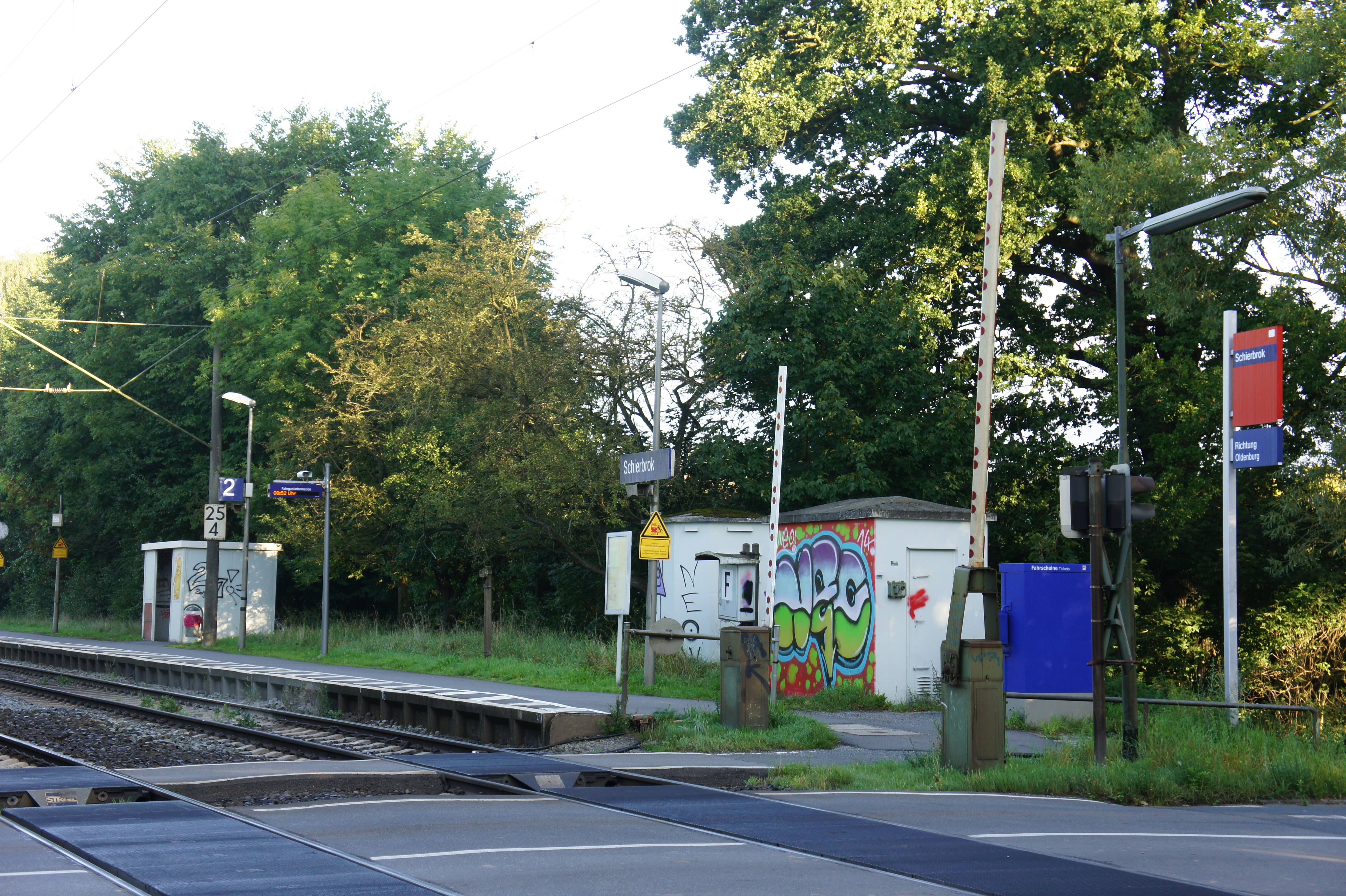 Railway halt Schierbrok